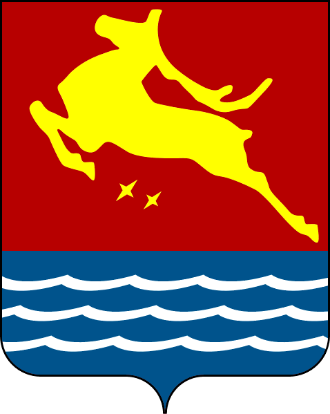 Magadan, coat of arms